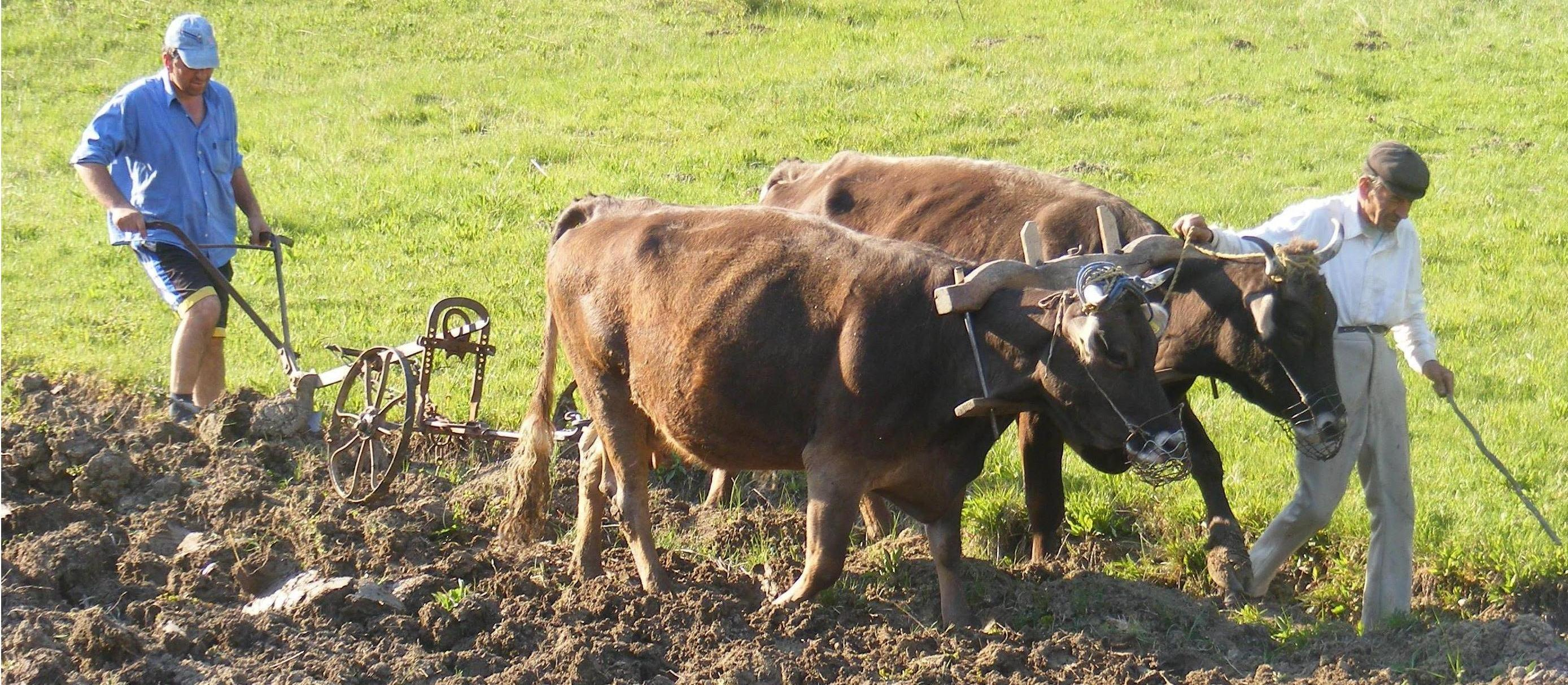 People working with cattle and plough in Gorj County, Romania